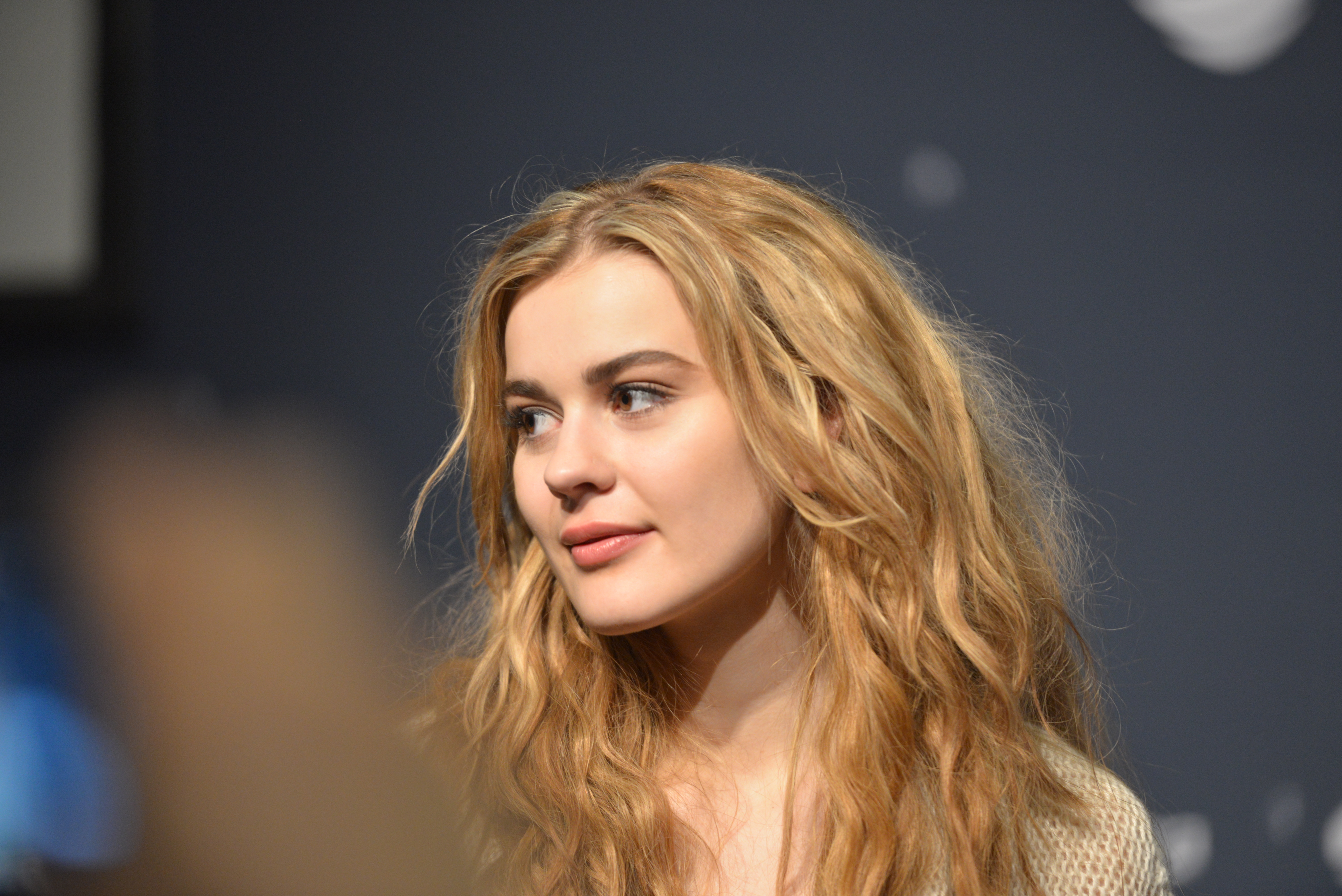 Emmelie de Forest at a press conference during the Eurovision Song Contest 2013 in Malmö. (Help translate this text)